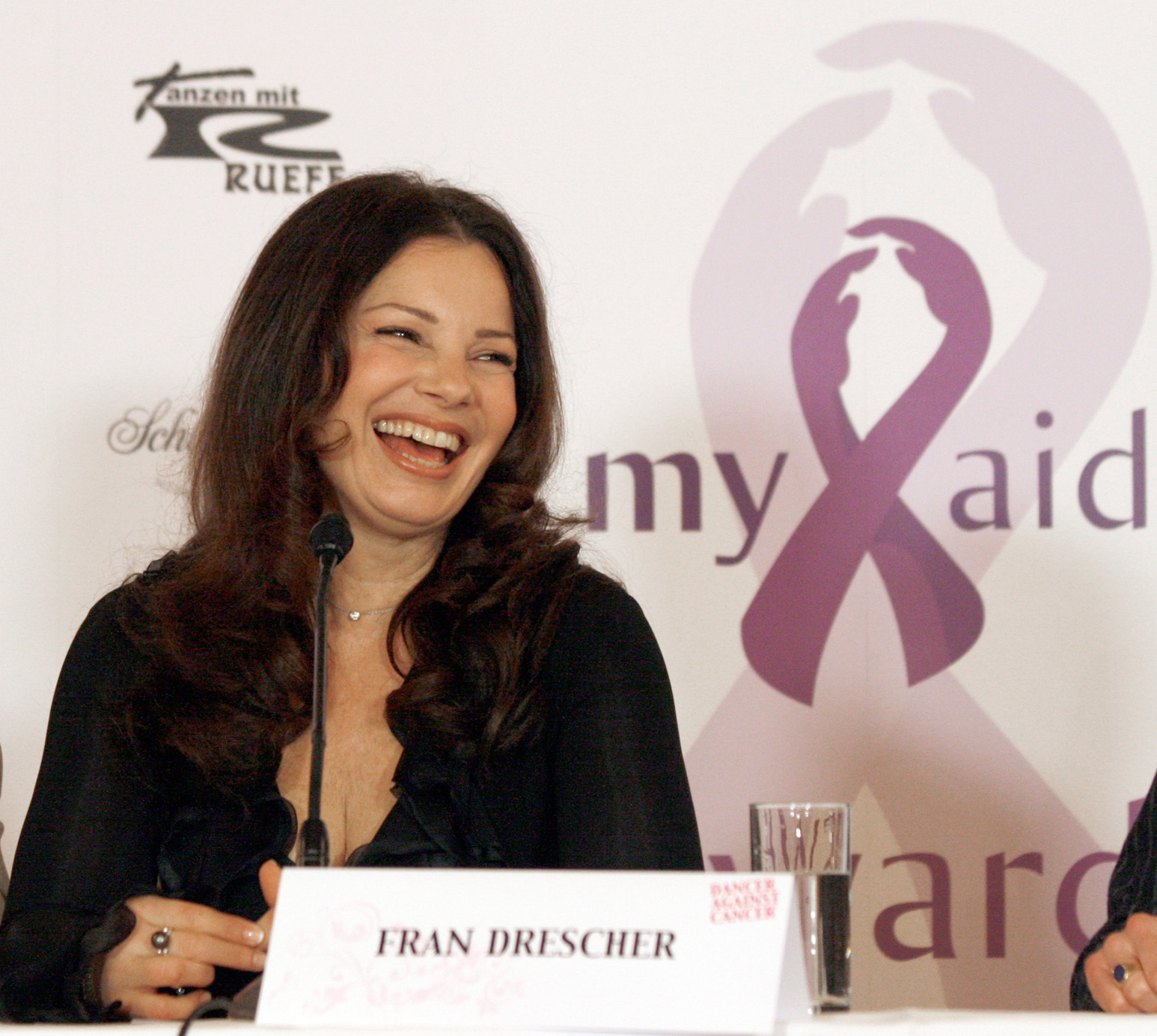 Fran Drescher during a press conference for the charity ball dancer against cancer (Palais Auersperg, Vienna)